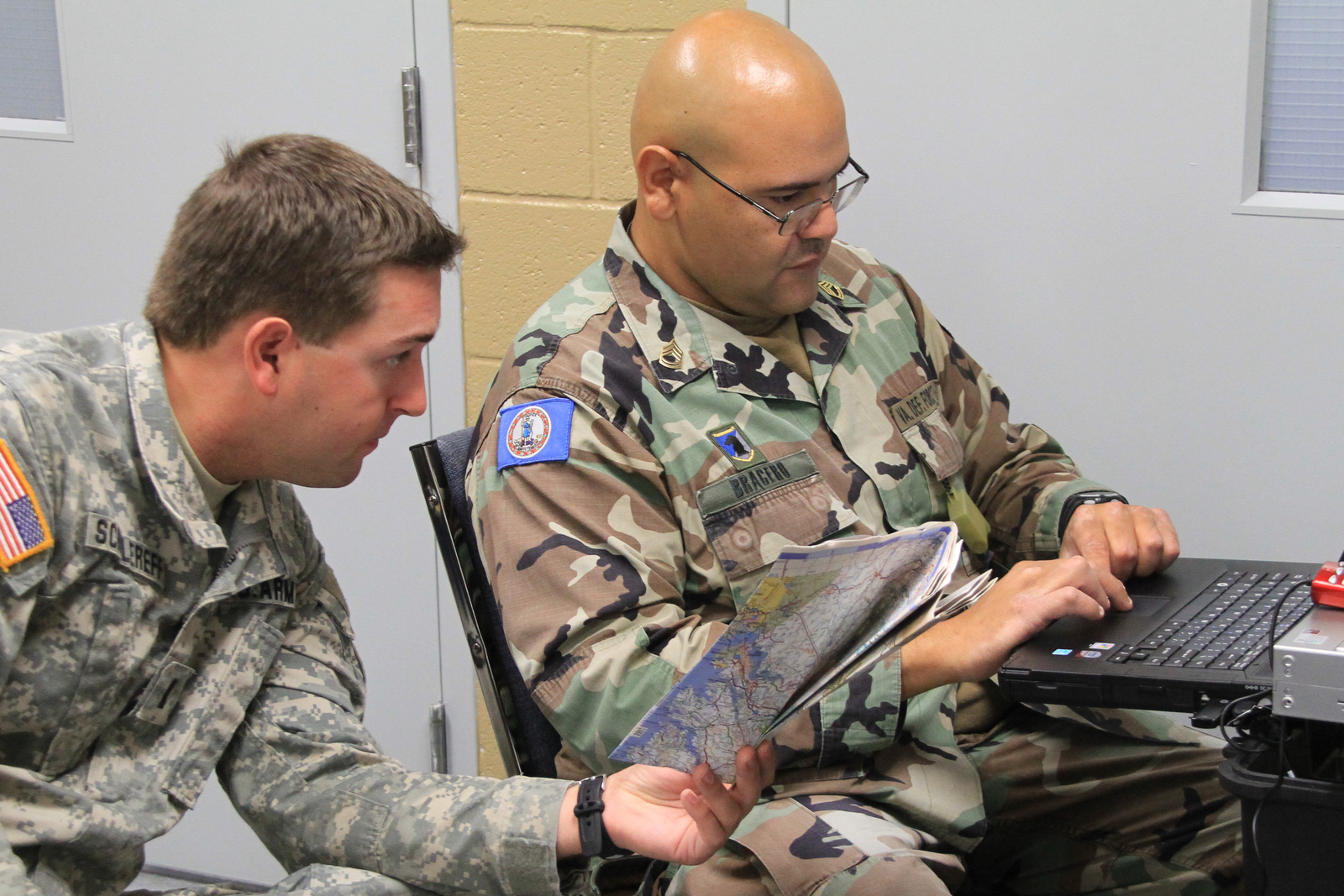 Soldiers from the Virginia National Guard's Fredericksburg-based Company D, 3rd Battalion, 116th Infantry Brigade Combat Team conduct mounted reconnaissance patrols in the Fredericksburg area July 2 to assess the impact of recent severe weather in the region. After conducting a mission briefing and pre-operation maintenance checks on their Humvees, the soldiers set out into predetermined patrol areas to check route trafficability, assess damage and provide residents with information about local cooling shelters. When needed, the soldiers also were able to relay information to local emergency response organizations if citizens needed assistance. Members of the Virginia Defense Force also are on station in Fredericksburg with Incident Management Assistance Teams helping commanders with reporting, information tracking and maintaining situational awareness.